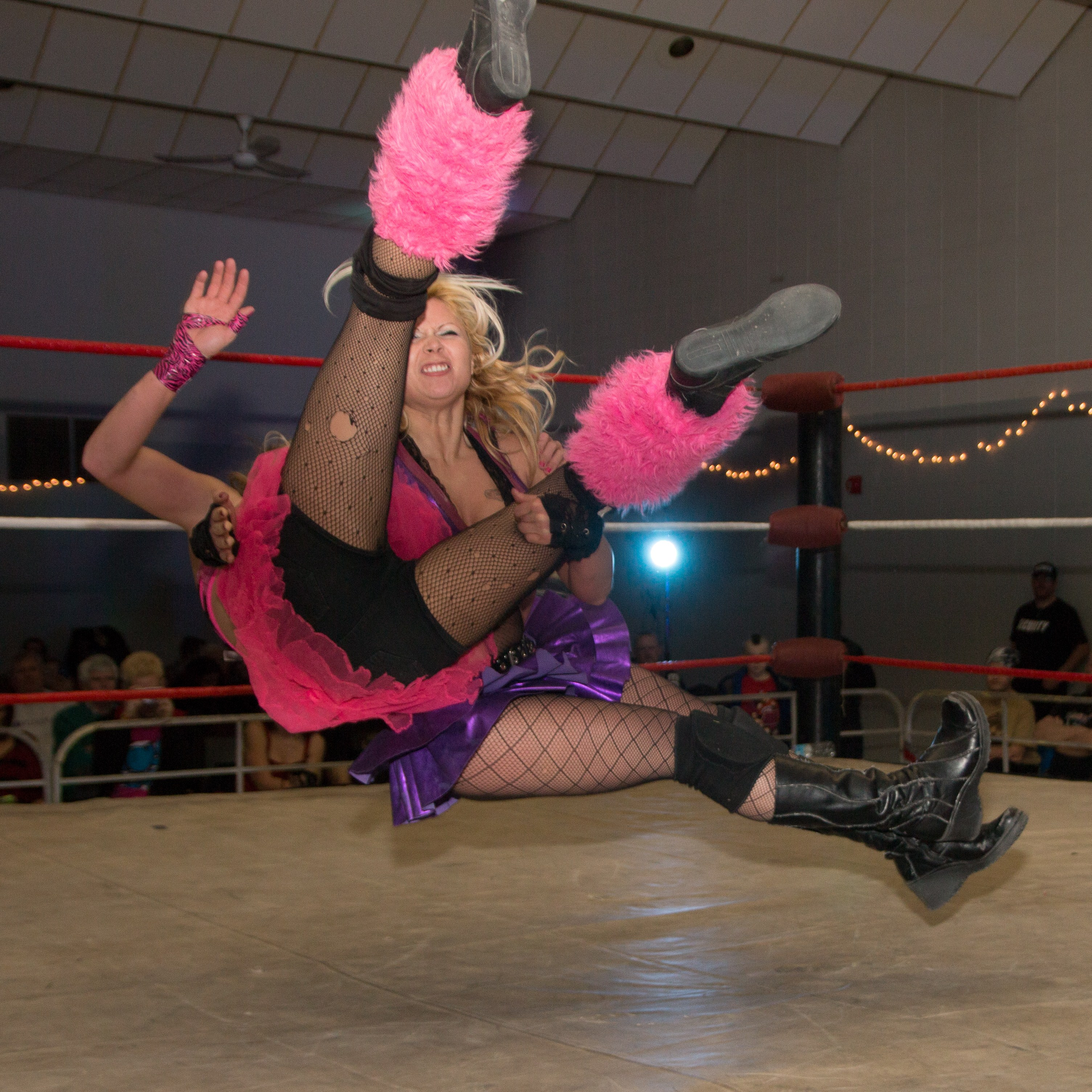 Wrestler Jewells Malone (in purple) executing a sidewalk slam on Beautiful Beaa